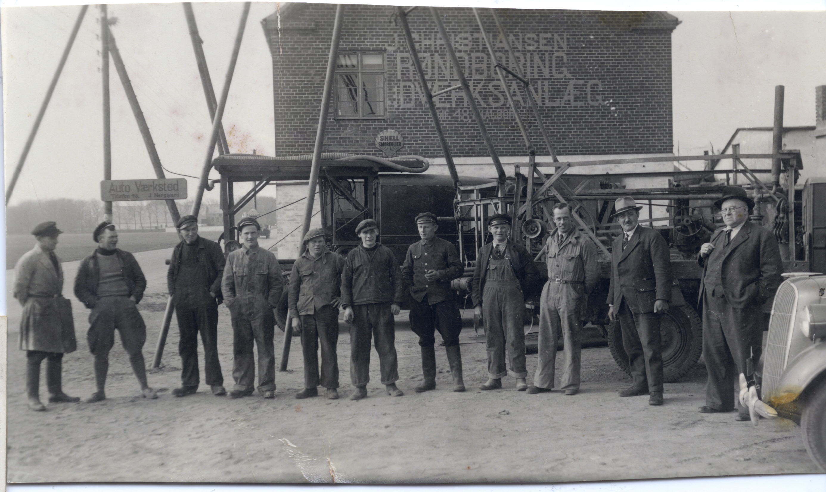 Skalborg, Aalborg, Denmark - well borer G.J. Christiansen Sr to the rigth. His son well borer G.J. Christiansen, Jr nr 4 from the left.